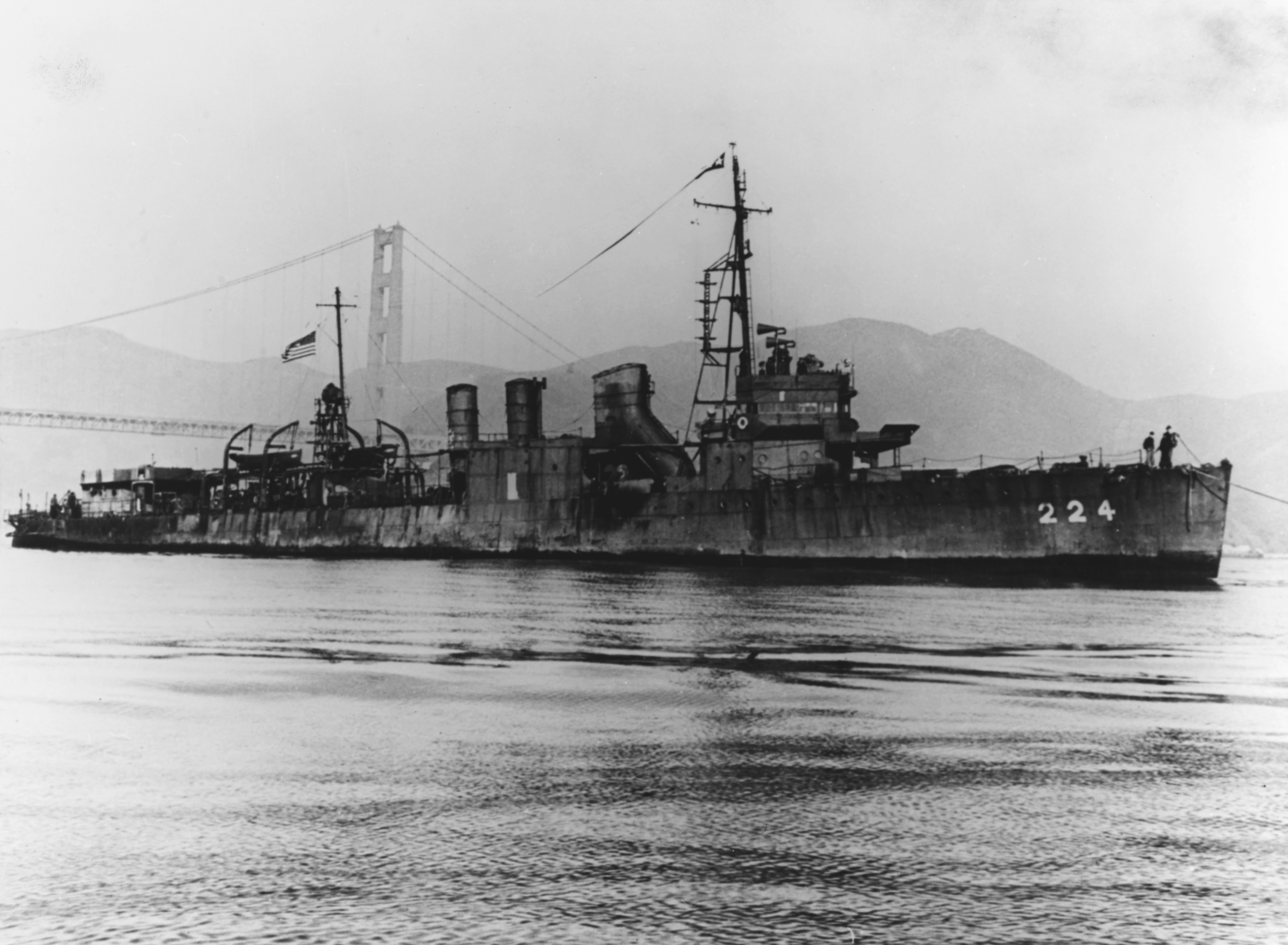 The U.S. Navy destroyer USS DD-224, ex-USS Stewart (DD-224) arriving under tow in San Francisco Bay, California (USA) in early March 1946. She is flying a long Homeward-bound pennant. USS Stewart was damaged in a dry dock accident at Surabaya, Netherlands East Indies, on 22 February 1942 and scuttled on 2 March. She was raised and reconditioned by the Japanese Navy in 1943 and served as Patrol Boat No. 102 until the end of World War II. Recommissioned by the U.S. Navy as USS DD-224 on 29 October 1945, she was sunk off San Francisco as an aircraft target on 24 May 1946.